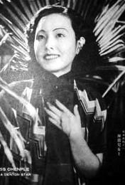 Chen Boer, Chinese actress